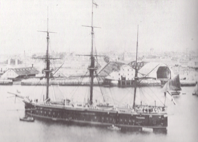 British central battery ironclad HMS Swiftsure sometime after she was converted to barque rig during an 1879-1881 refit